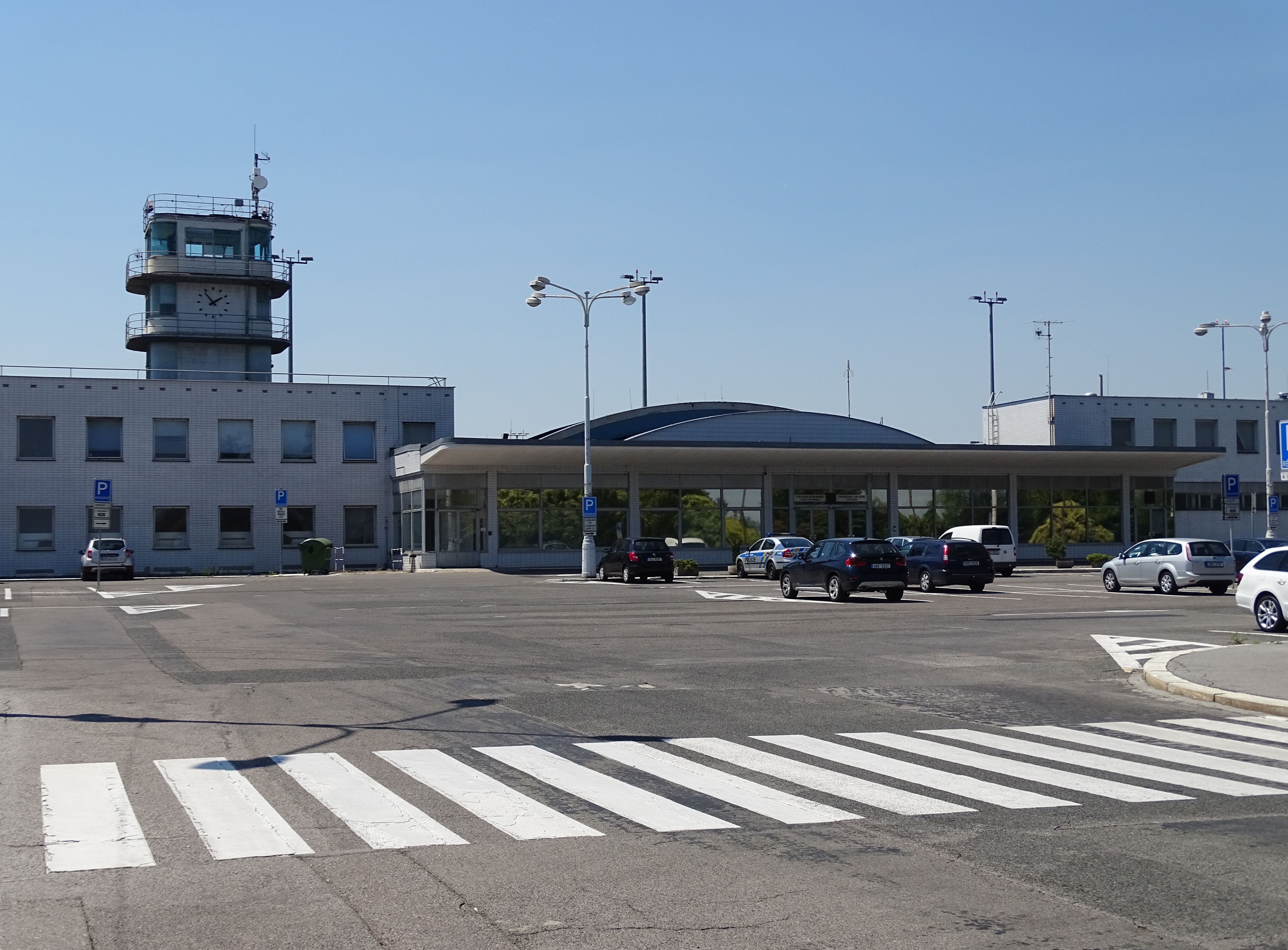 Prague-Ruzyně, Czech Republic. Václav Havel Airport Prague, K letišti 550, the old airport building.